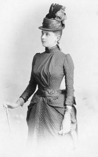 Princess Zinaida Yusupova (1861-1939)